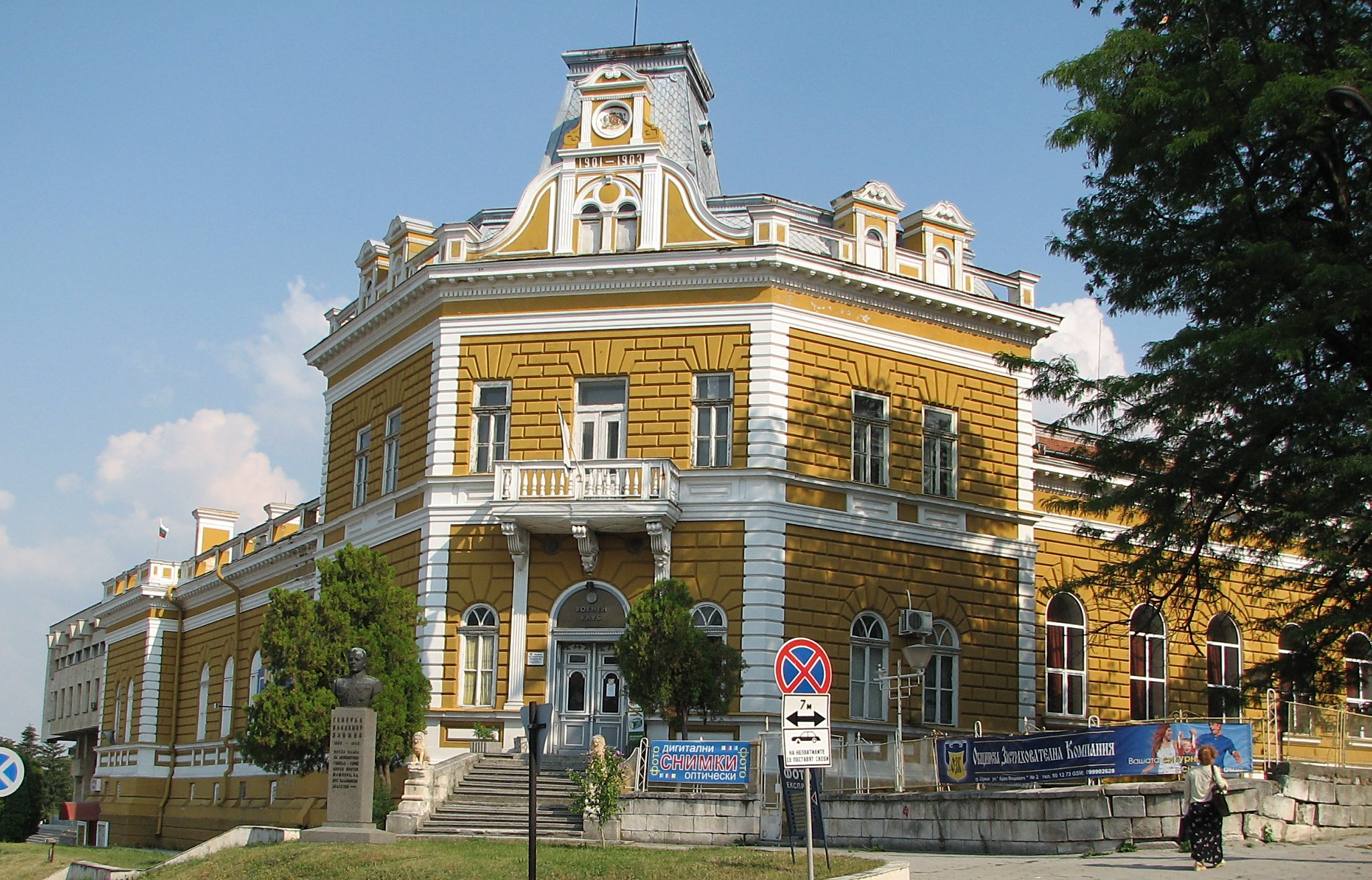 Shumen Military Club, Bulgaria